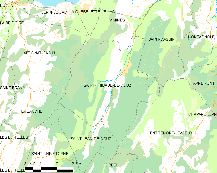 Map of French municipality Saint-Thibaud-de-Couz